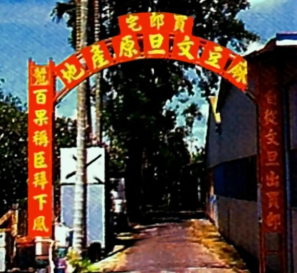 This is a picture that indicate the place which called "Mai's people house" in Taiwan, also is the original producing area about "Mato Buntan's" Mai's people house 買郎宅